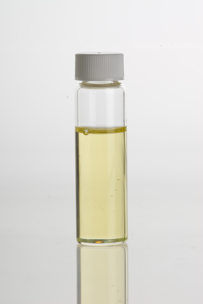 Sesame (Sesamum indicum) Seed Oil in clear glass vial